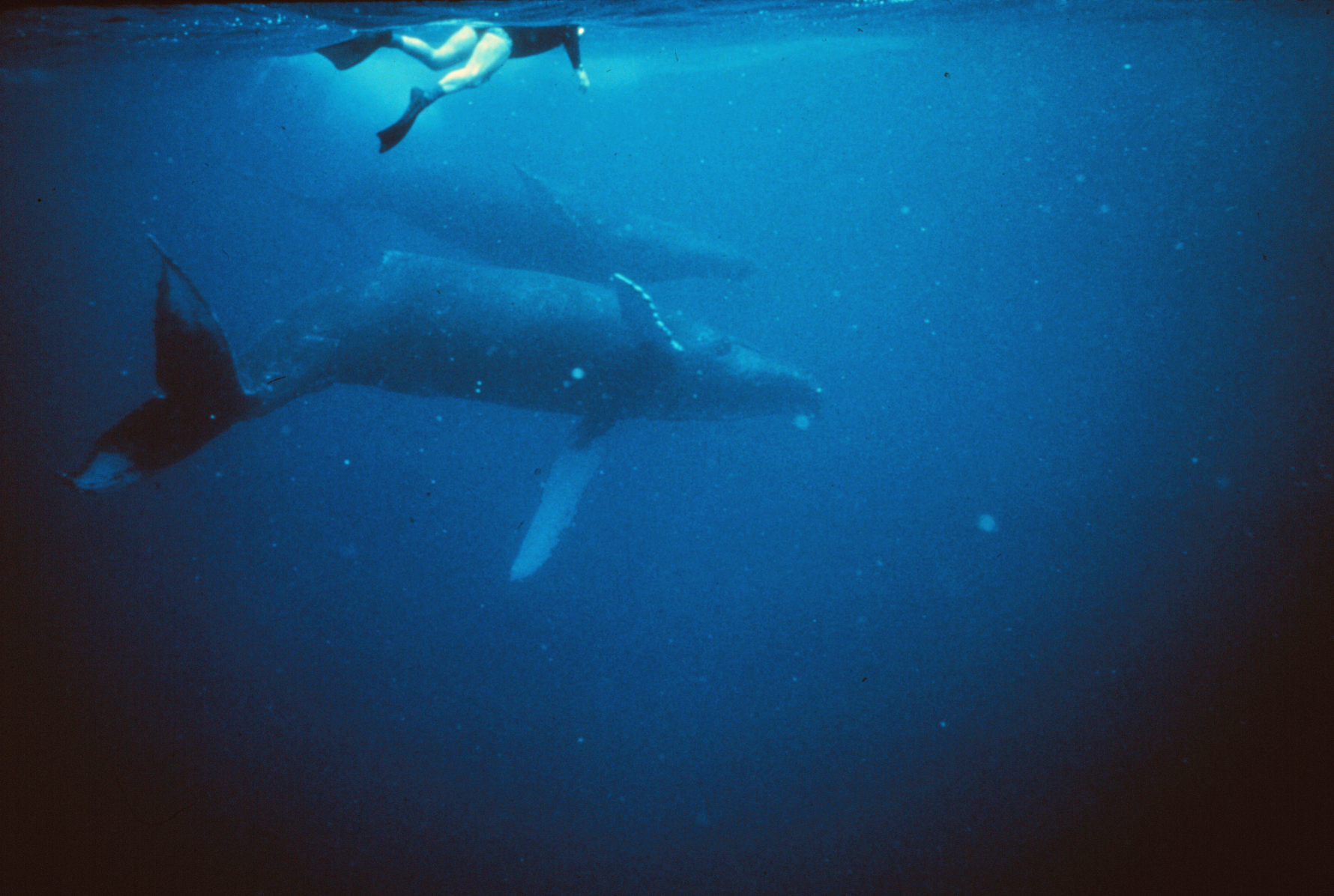 Humpback whale Megaptera novaeangliae at boreal to tropical Atlantic and Pacific